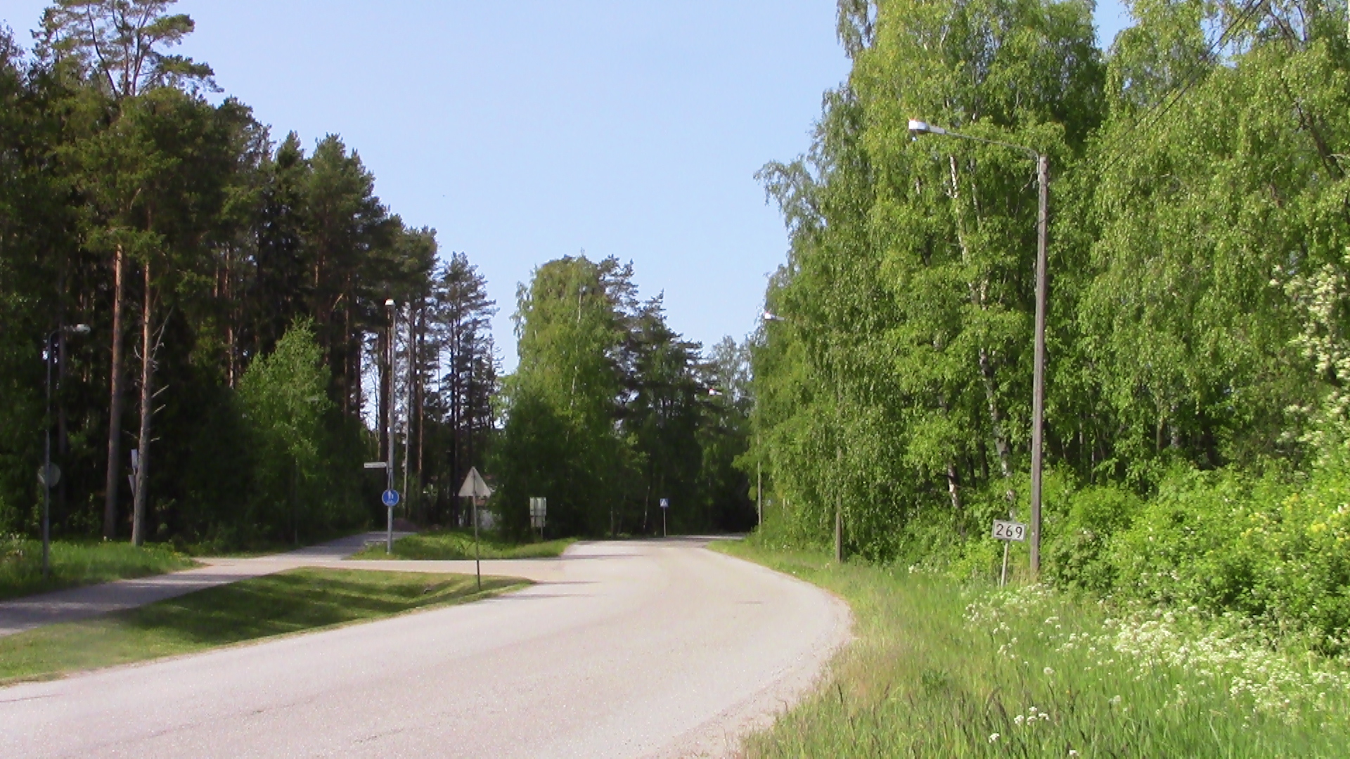 Regional road 269 at Reposaari suburb in Pori, Finland. The road runs from Mäntyluoto to Reposaari.